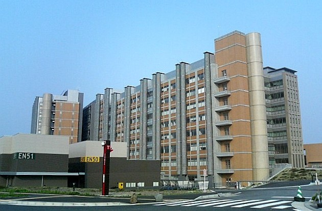 Ito Campus, Kyushu University. West Zone Building Located in Nishi-ku, Fukuoka City, Fukuoka Pref., Japan. Photograph taken by the original uploader on 20 May 2006.